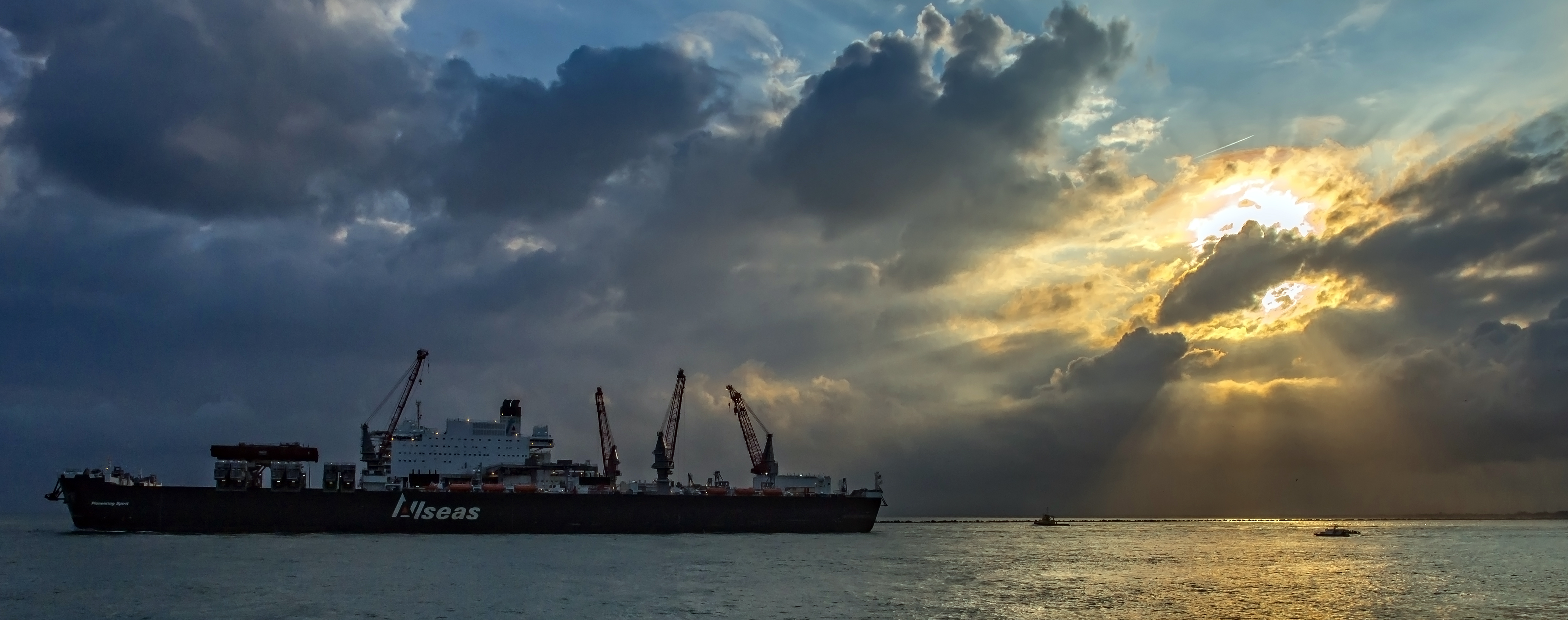 Crane ship Pioneering Spirit, Maasvlakte 2, Rotterdam.